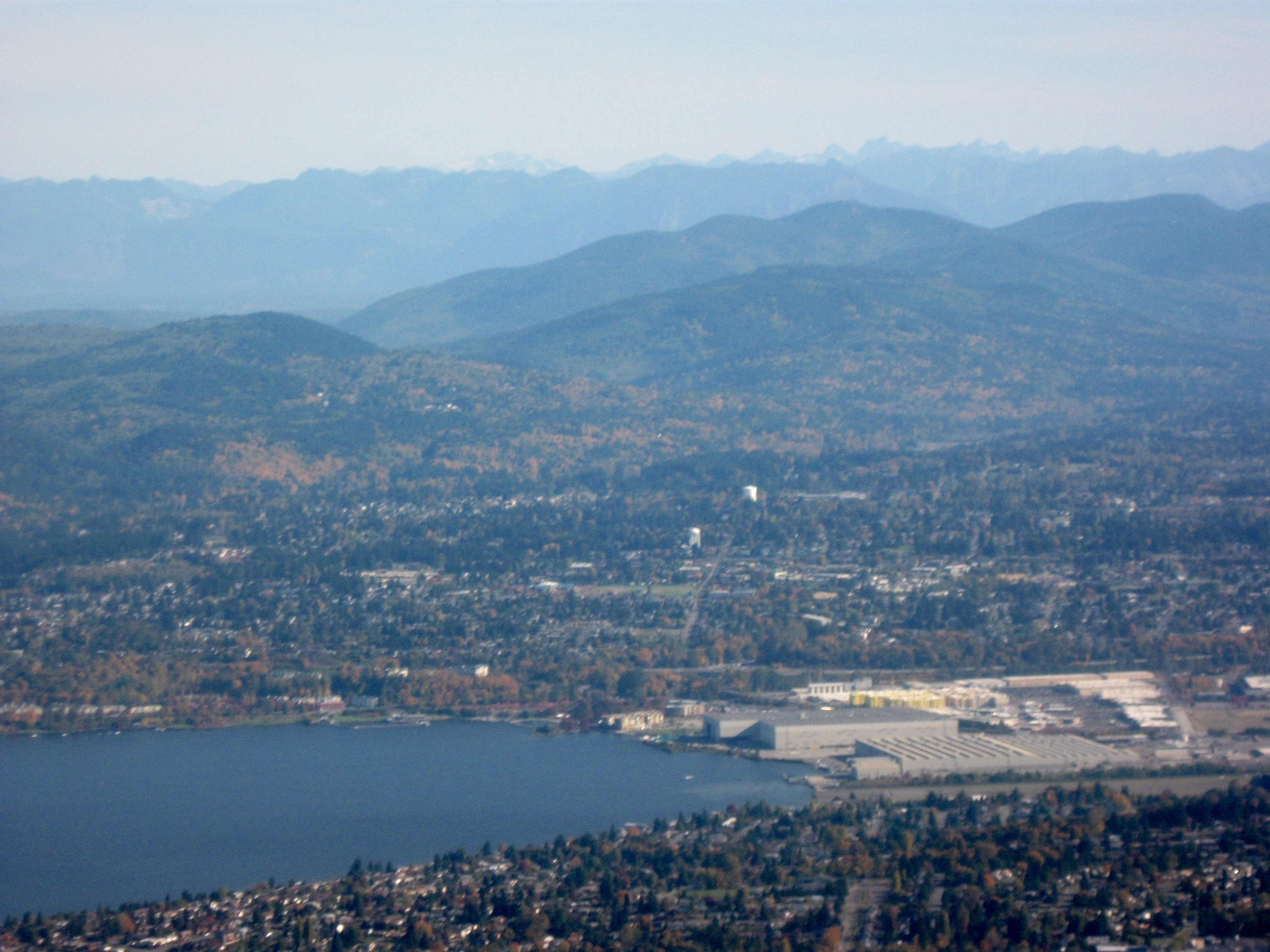 Aerial view of south end of Lake Washington, Seattle, looking east towards Cascade Mountains, with a view of Boeing plant at the southern tip. Taken by myself from a commercial airliner window.